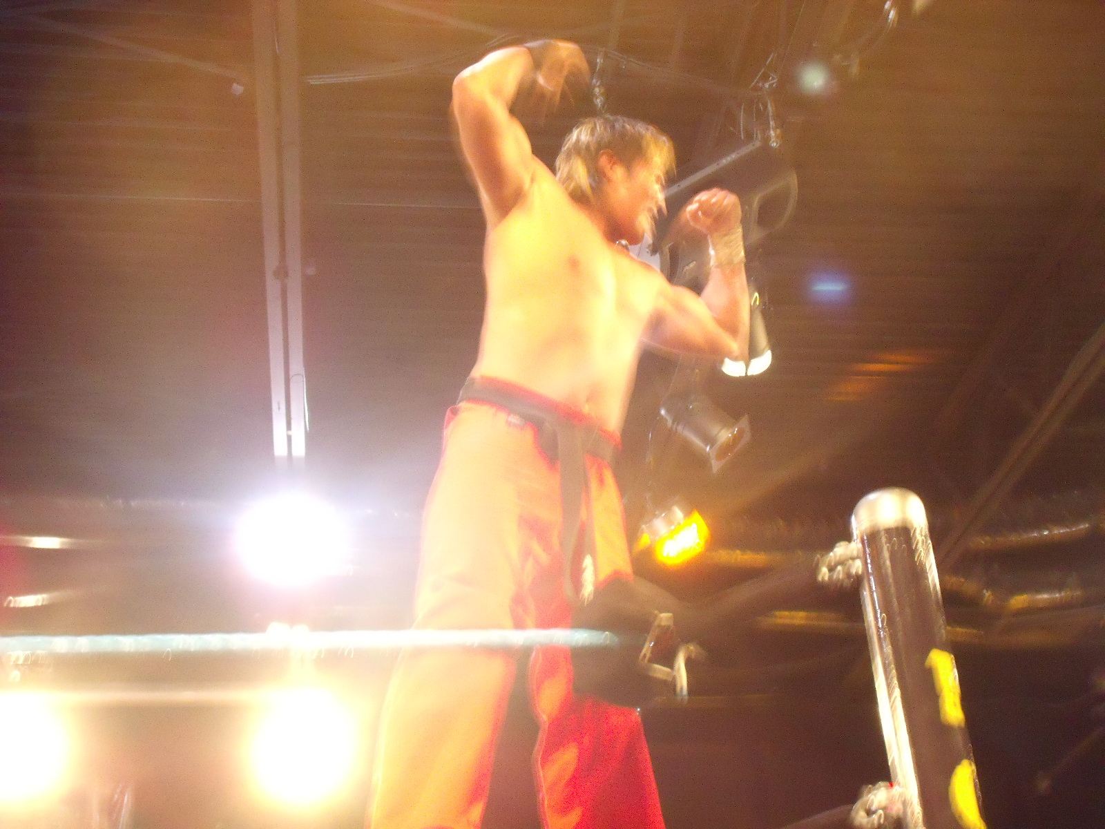 Yoshitatsu in 2009 on FCW. Now a member of Monday Night Raw.